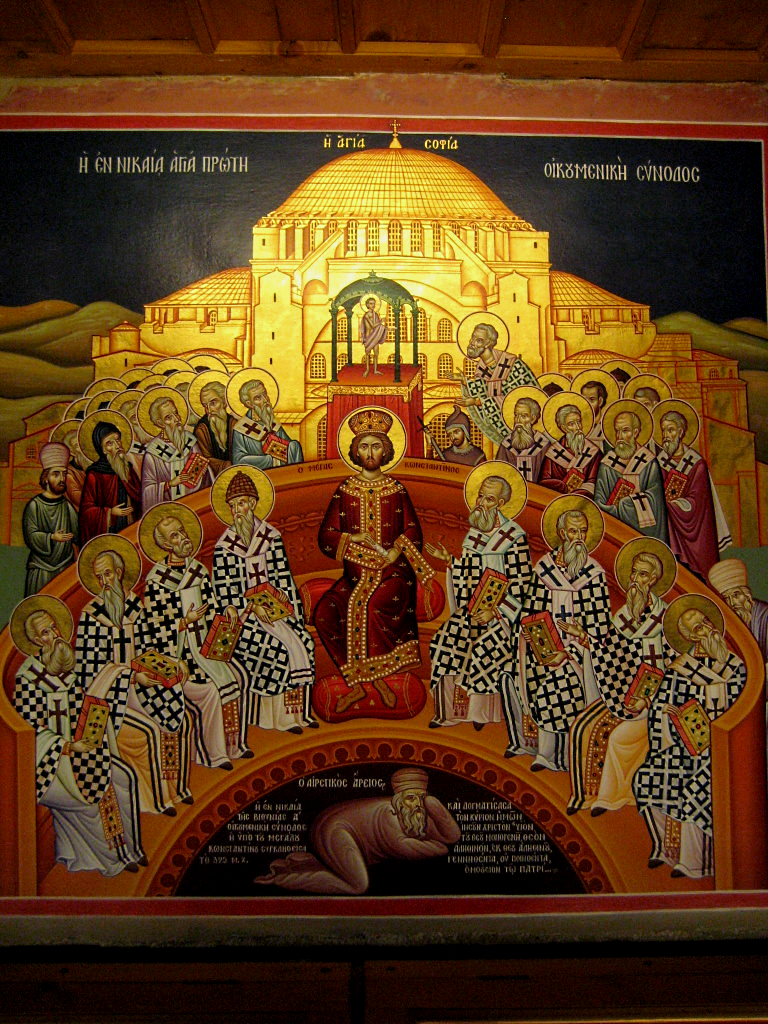 Icon from the Mégalo Metéoron Monastery in Greece, representing the First Ecumenical Council of Nikea 325 A.D., with the condemned Arius in the bottom of the icon.